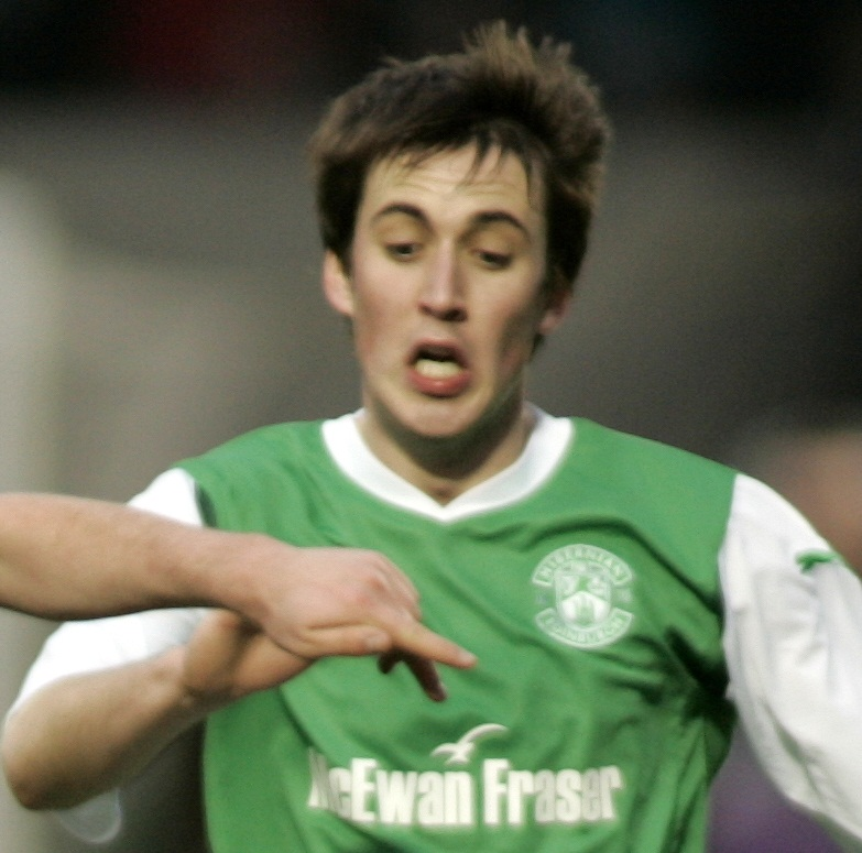 Callum Booth playing for Hibernian FC in a Scottish Premier League match against St. Mirren FC on 20 February 2011.